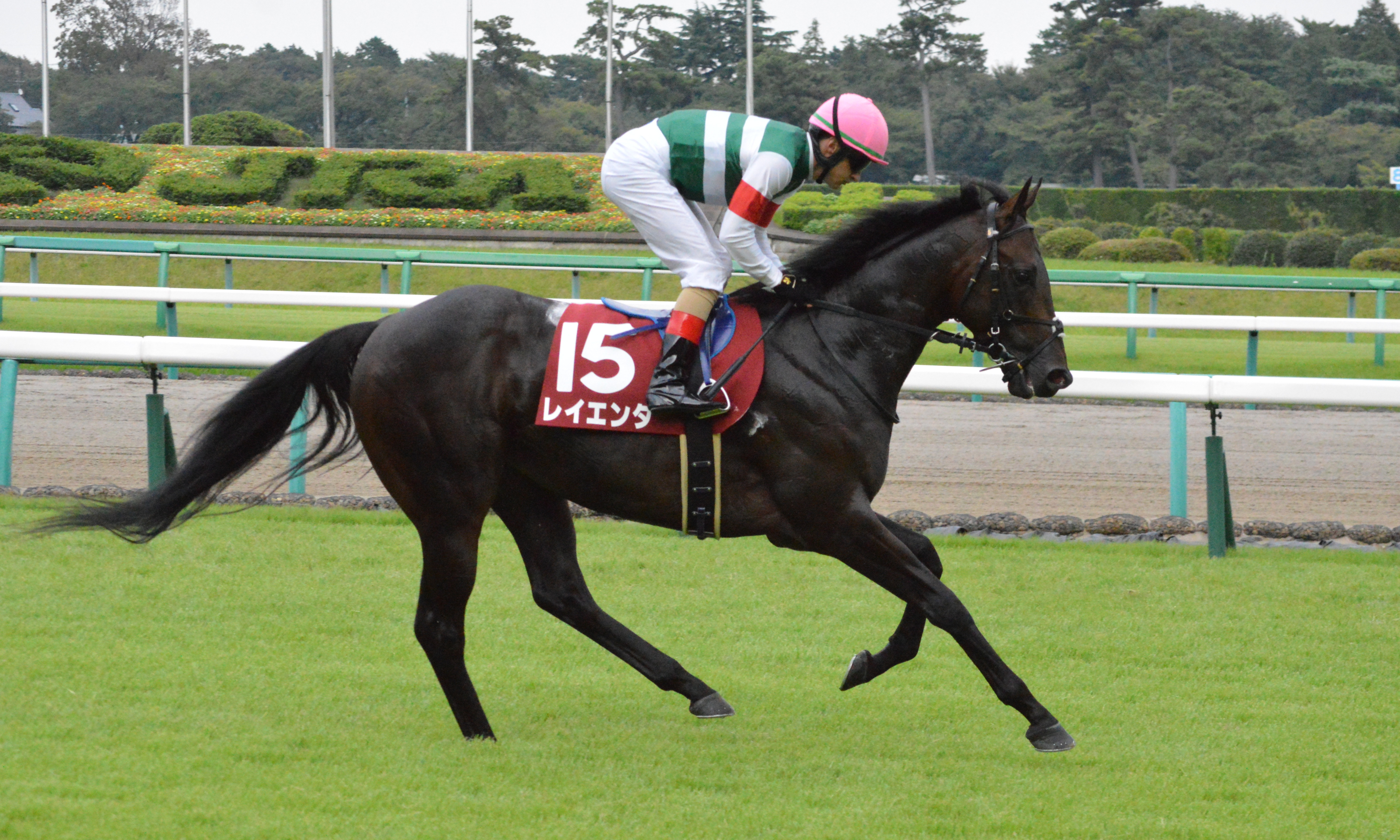 Japanese race horse Leyenda at Nakayama racecourse.